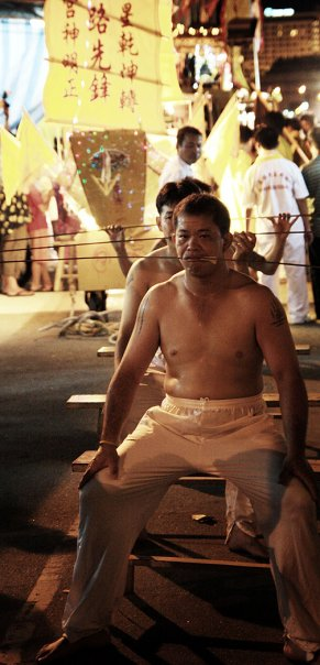 Man at Nine Emperor Gods Festival.